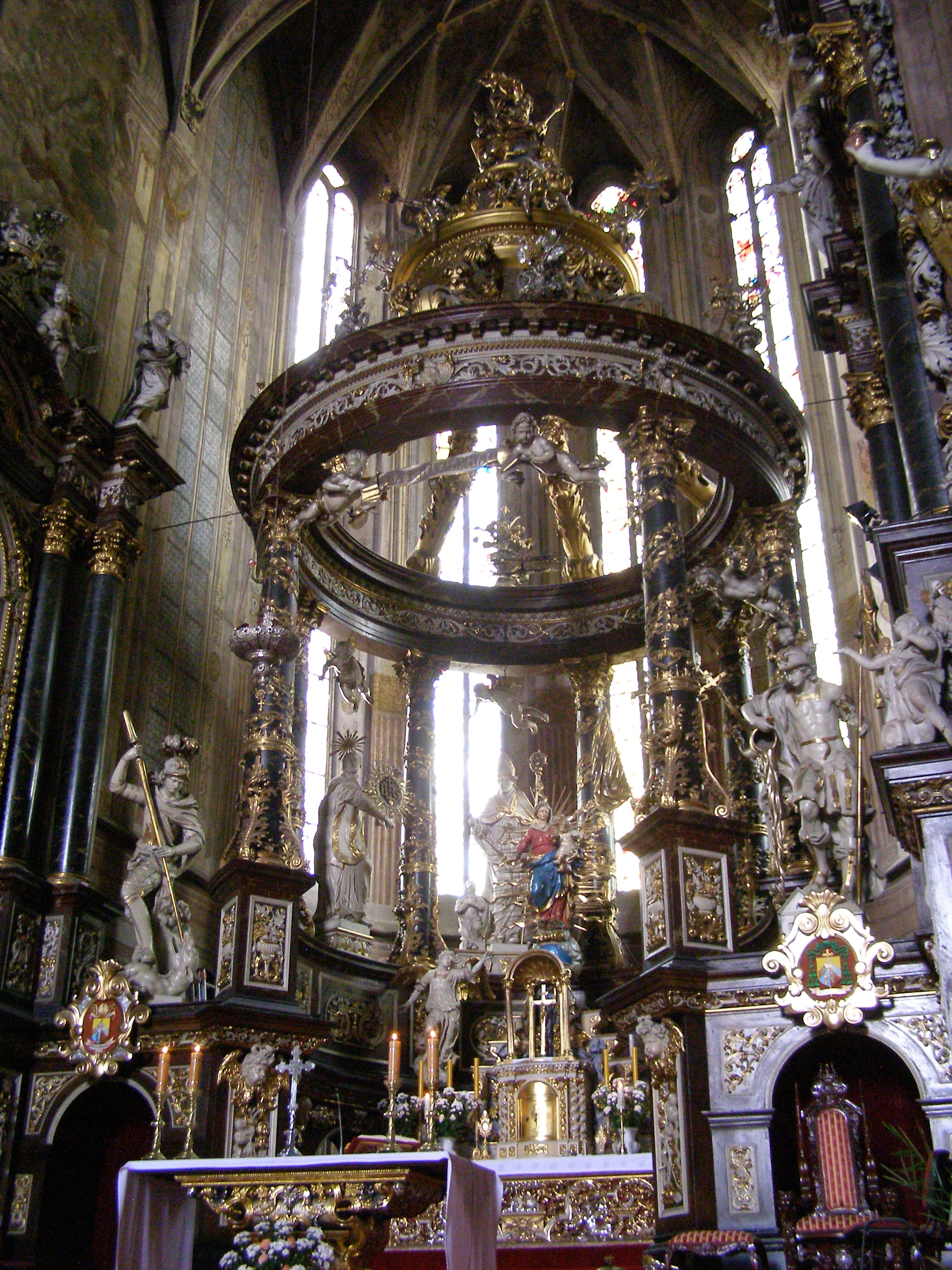 Świdnica - cathedral